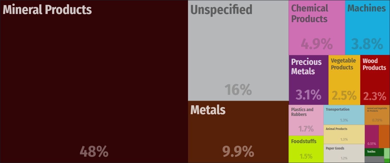 Russia Export Treemap from MIT Harvard Economic Complexity Observatory